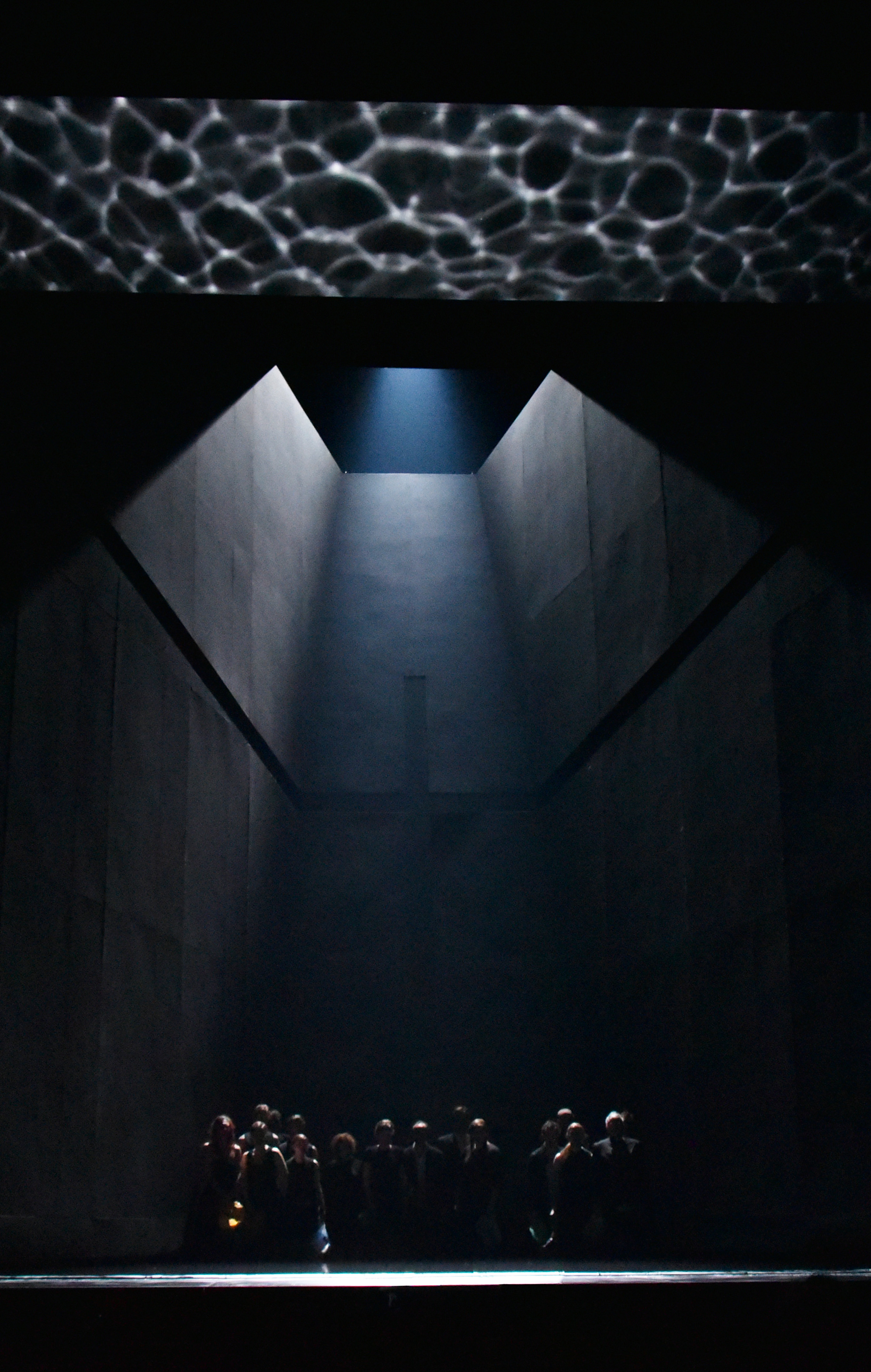 Die Schutzbefohlenen (von Elfriede Jelinek), Burgtheater Wien 2015